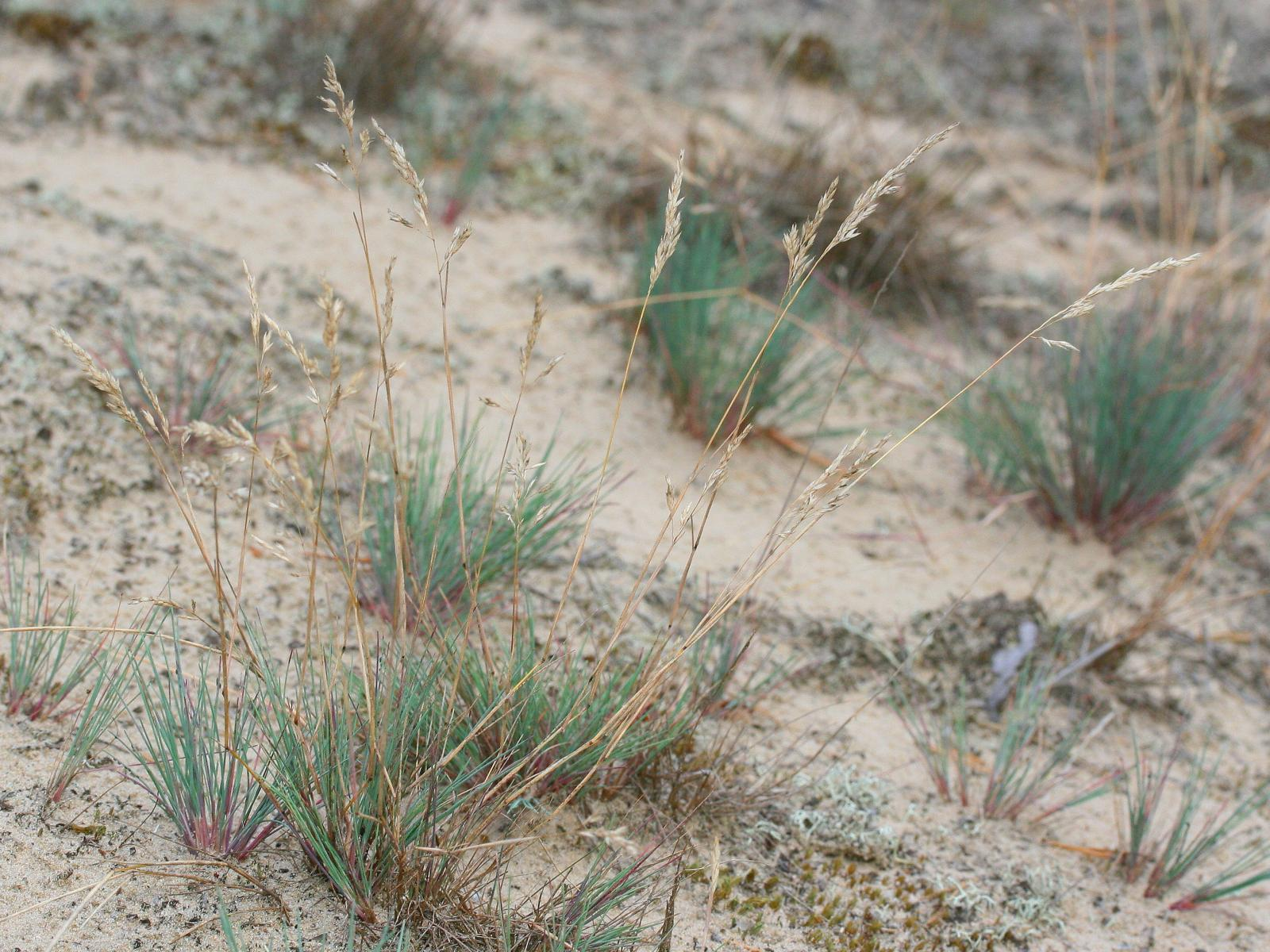 Silbergras (Corynephorus canescens)